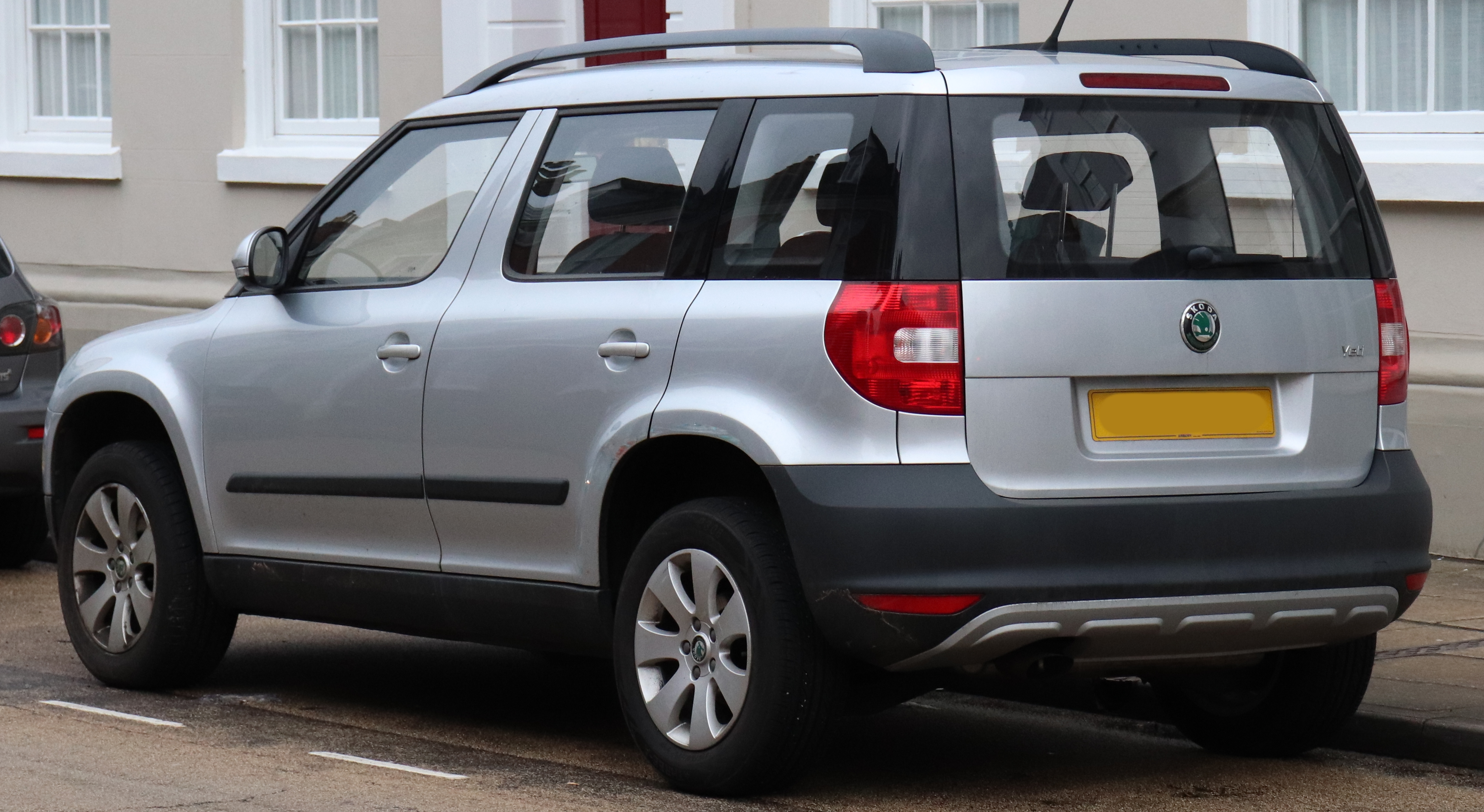 2011 Skoda Yeti S TSi 1.2 Rear Taken in Warwick